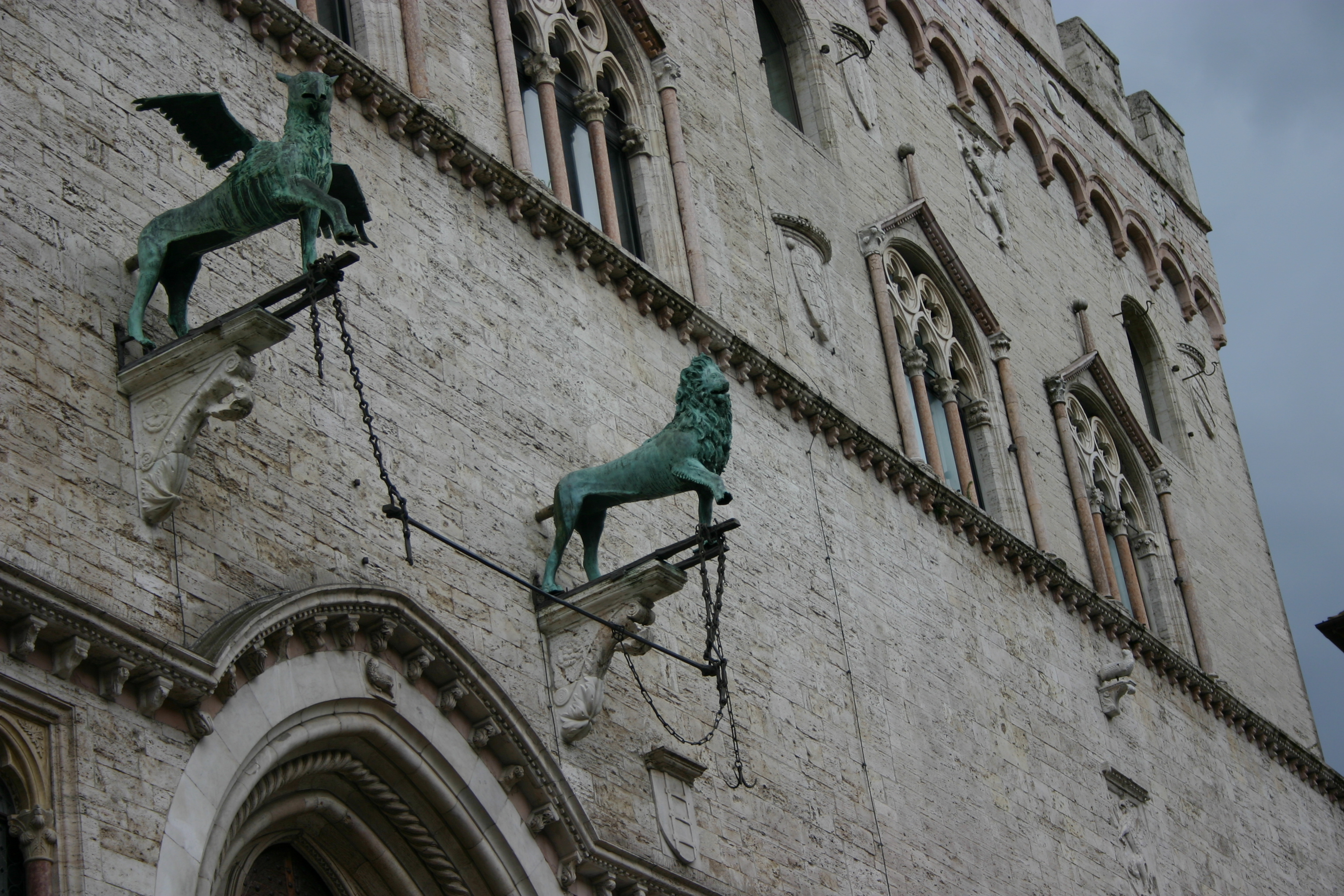 Perugia, The griffin and the lion, heraldic animals, 13th century bronze sculptures on the façade of the Palazzo dei Priori. These are modern copies created to preserve the ancient sculptures, that are now in the National gallery of Umbria within this same palace. Picture by Giovanni Dall'Orto, August 5, 2006.